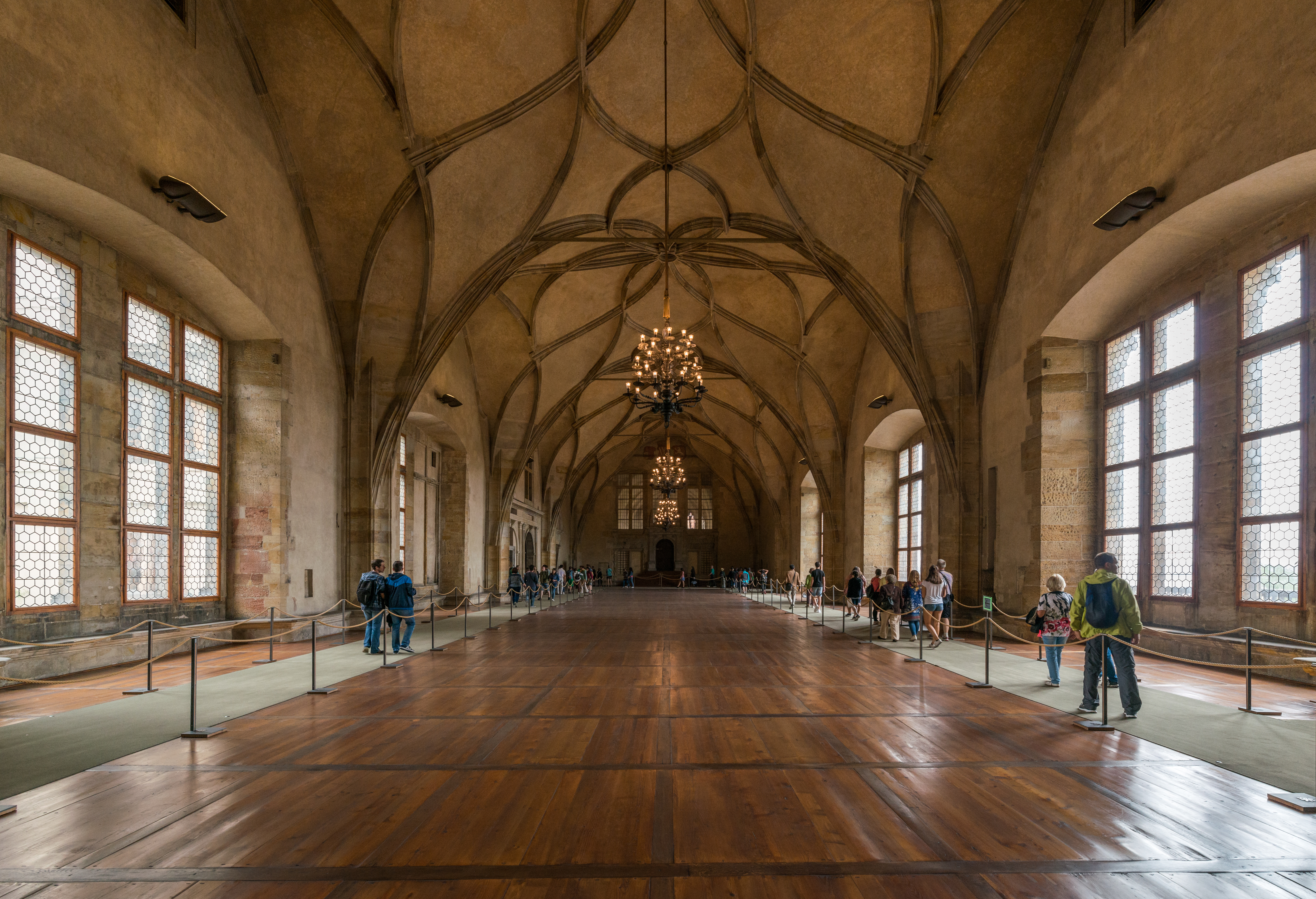 An interior view of Vladislav Hall, Prague Castle